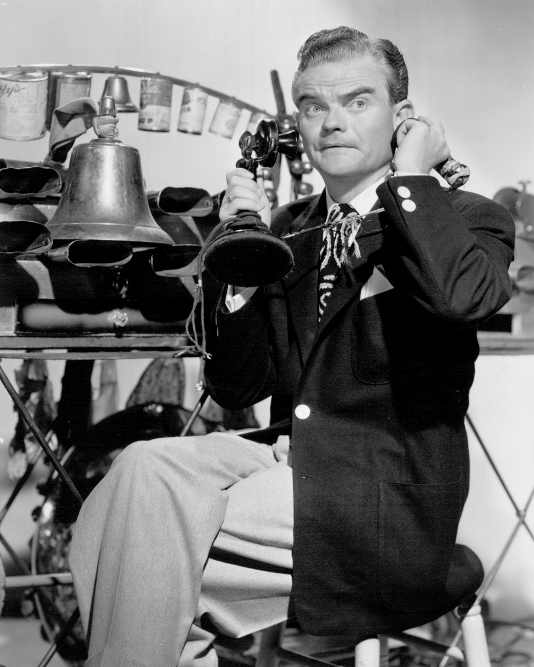 Photo of bandleader and musician Spike Jones. Jones and his band specialized in playing music with non-traditional instruments such as bells and tin cans, as well as comedic presentations of songs. Note that the tin cans pictured have labels on them for various brands. They are de minimis. The photo also dates from 1948; the labels have been re-designed more than once in the 60+ years since the photo was taken. The cans give us a good look at the ordinary household objects Jones and his band used to make music with. The item has no copyright markings on it as can be seen in the links above.